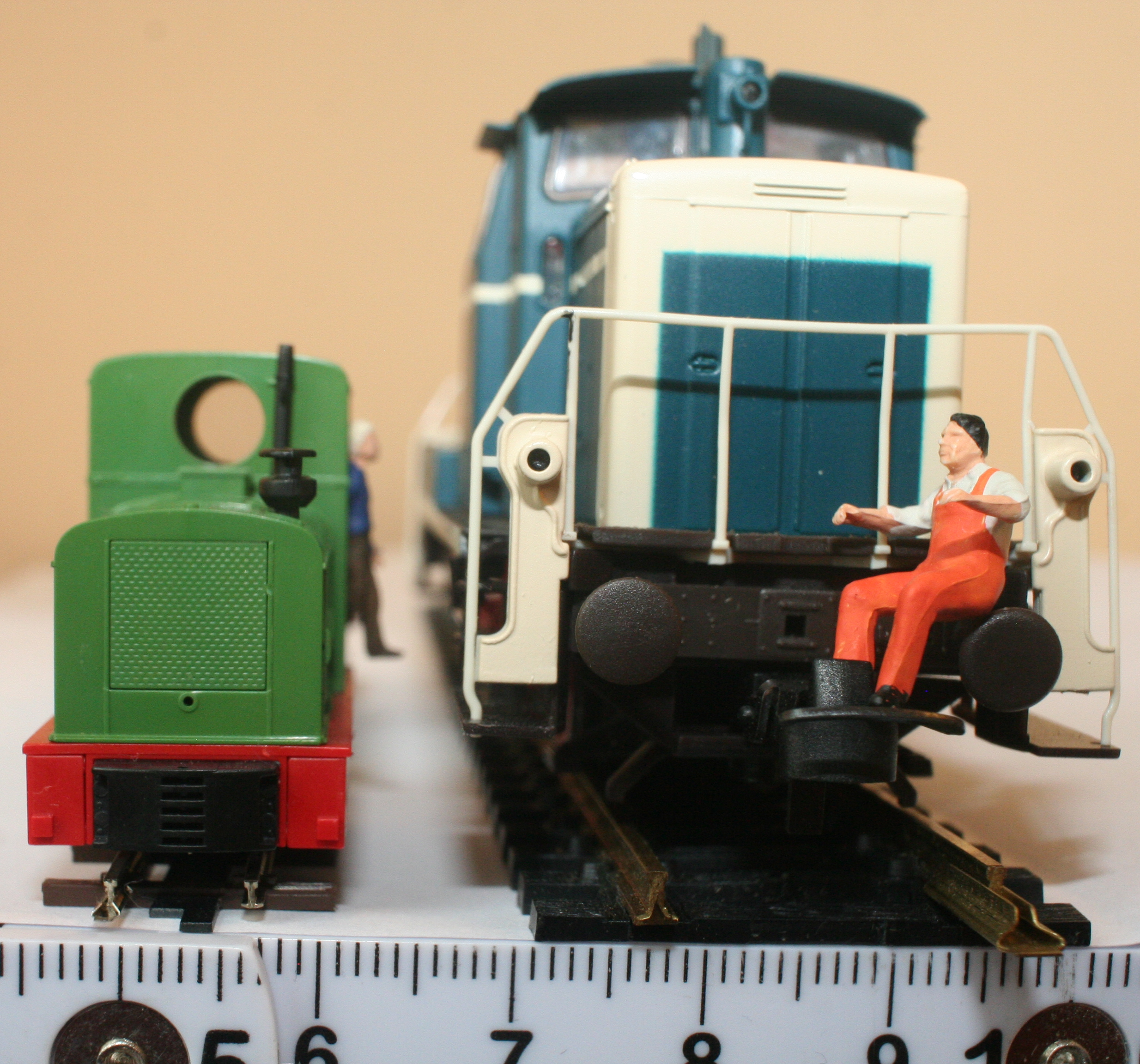 H0 scale (1:87) track gauges. A narrow gauge locomotive with a standard gauge locomotive: Green OMZ122f locomotive (600 mm, modelled on 6.5 mm H0f gauge), model manufactured by Busch Blue DB V60 locomotive (1435 mm, modelled on 1435 mm H0 gauge), model manufactured by Dingler